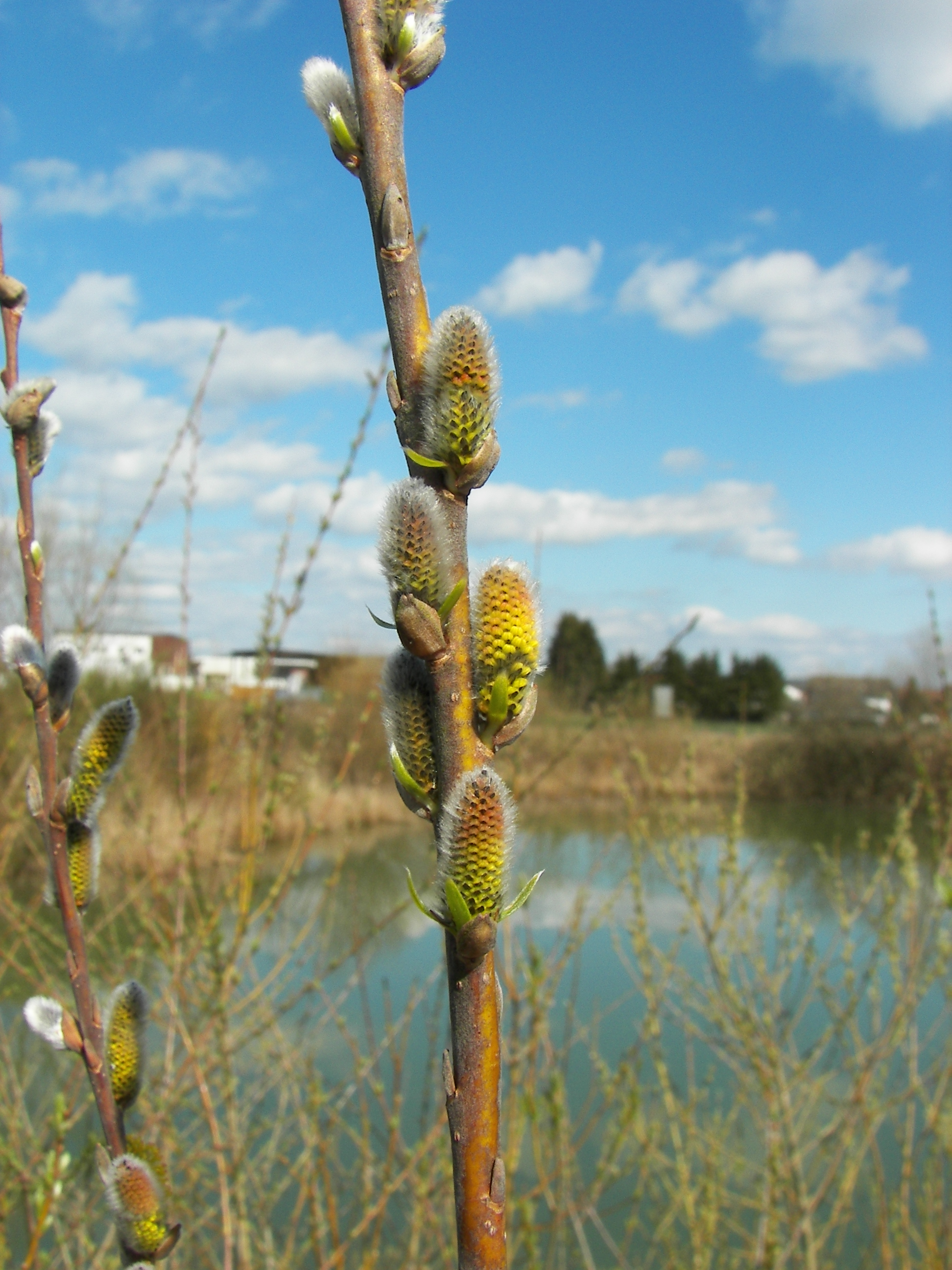 Common Osier (Salix viminalis), male catkins, Location: Lahntal-Goßfelden, Hesse, Germany